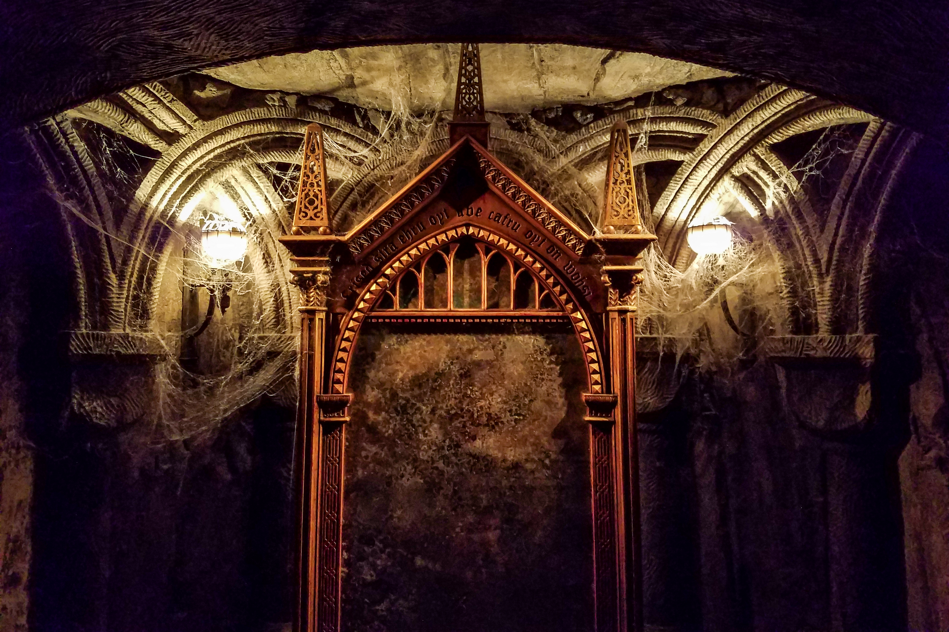 Inside Hogwarts (aka Harry Potter and the Forbidden Journey) in the Wizarding World of Harry Potter at Universal Studios Hollywood.